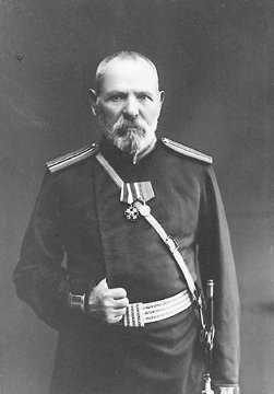 Herzel Yankel Tsam, the only Jewish officer in the 19th century Russian Empire. Drafted into the army as a 17-year-old сantonist, he was pomoted to captain only after 41 years of service. In spite of pressures, he never converted to Christianity.